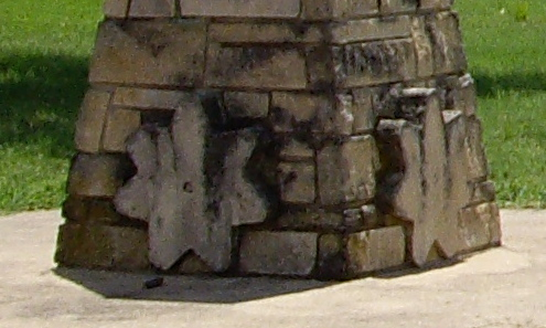 Cross sections of a threshing stone on a monument. Historic 1974 Mennonite Centennial Memorial Monument and Santa Fe Park, southeast corner of Walnut St and 1st St, Peabody, Kansas, 666866, USA.